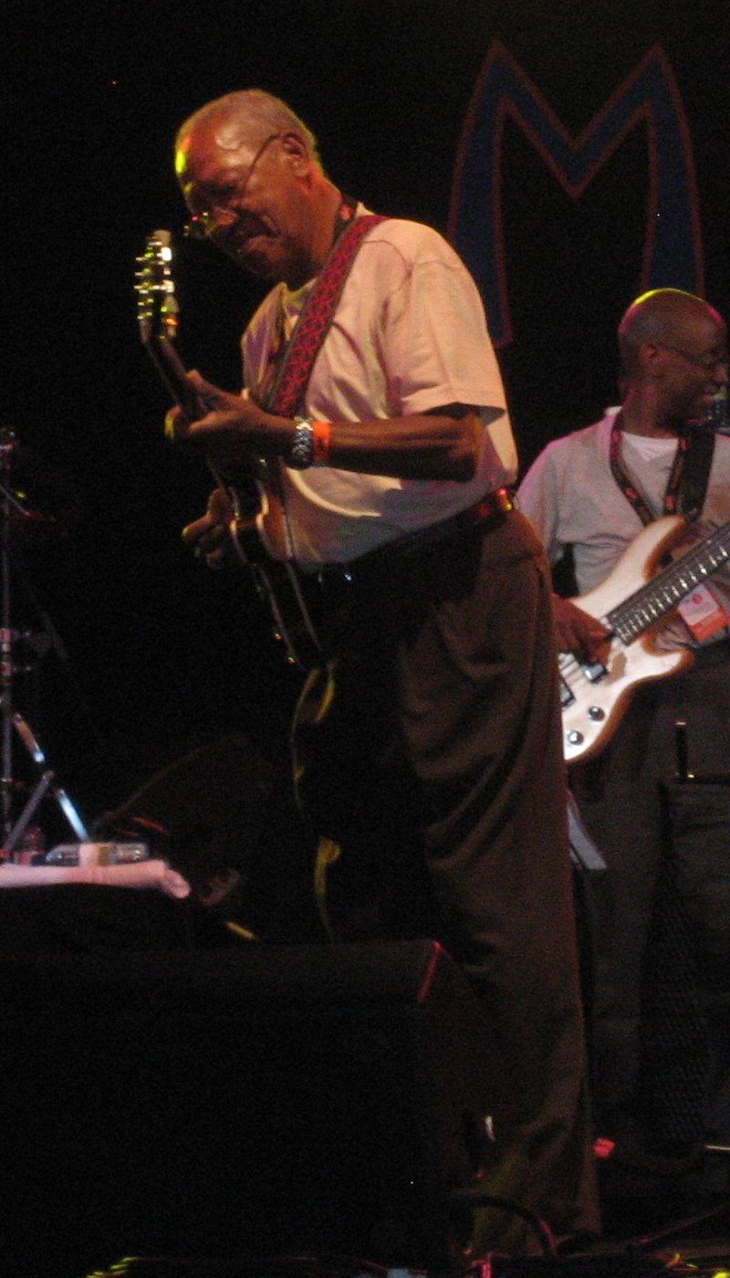 Ernest Ranglin performing at WOMAD, UK, 2008